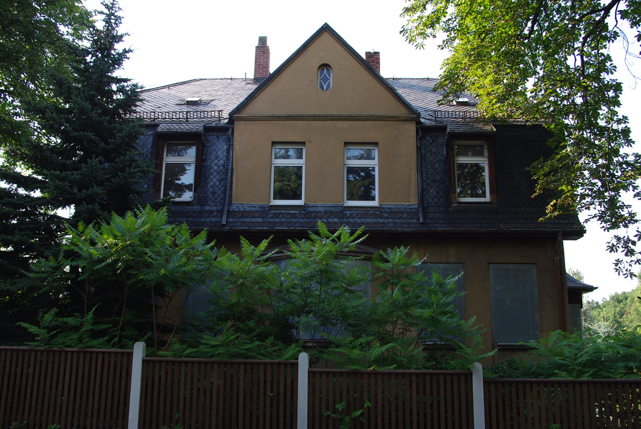 Mansion Karl Schmidt-Rottluff in Chemnitz (Rottluff) in Germany.